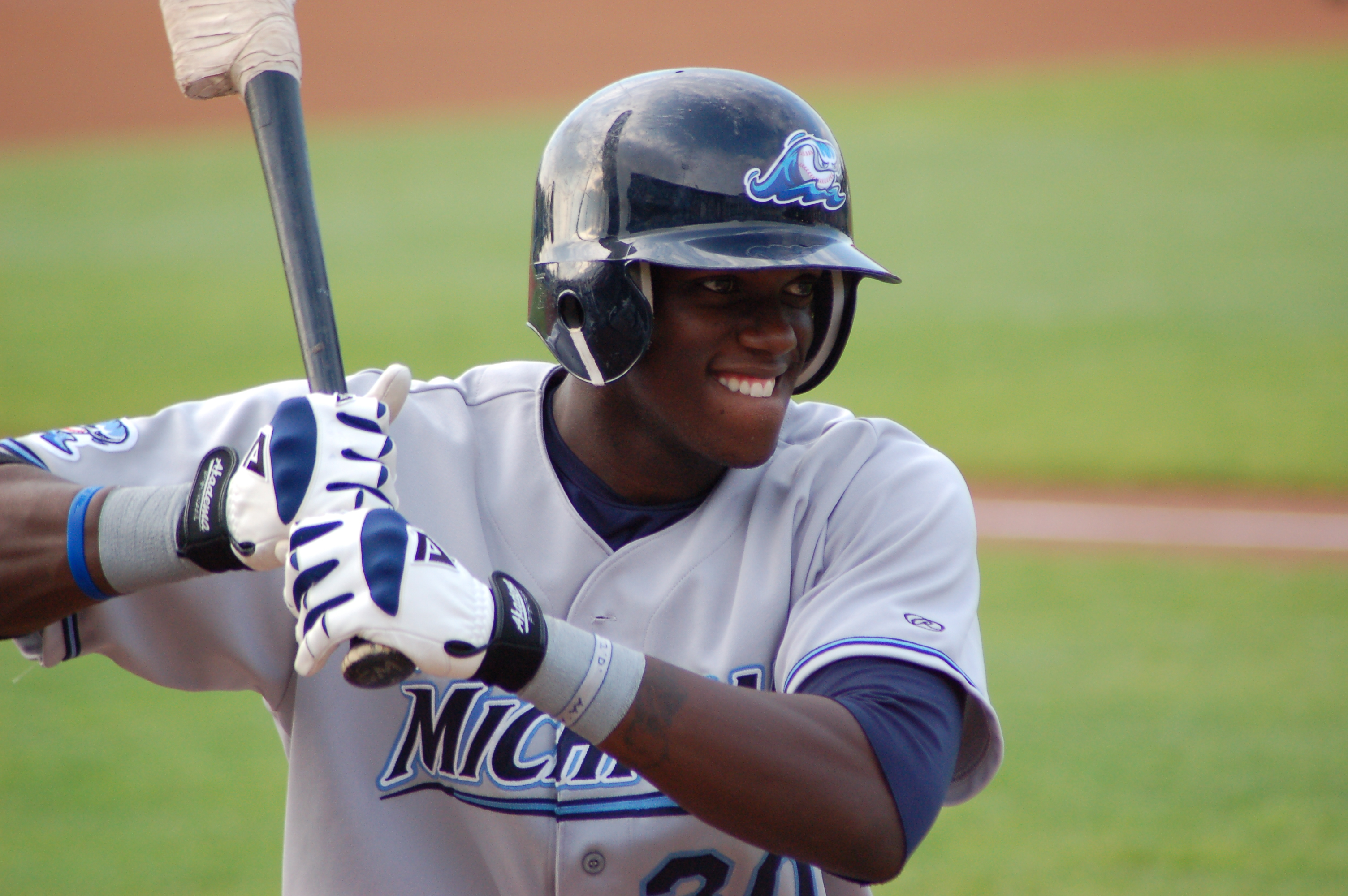 Cameron Maybin, as seen with the West Michigan Whitecaps in 2006.